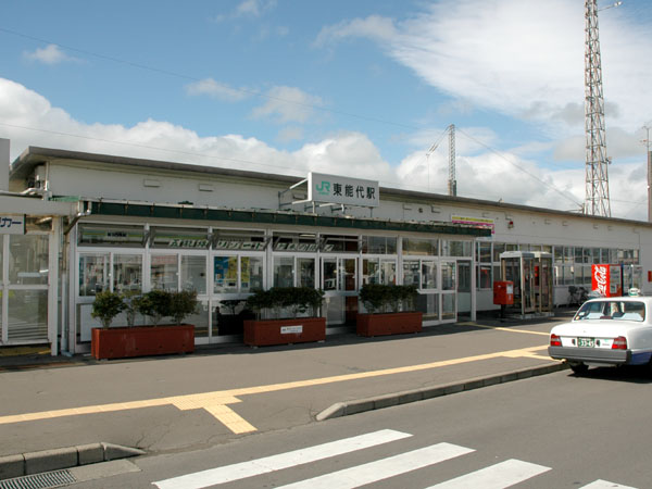 Higashi-Noshiro Station